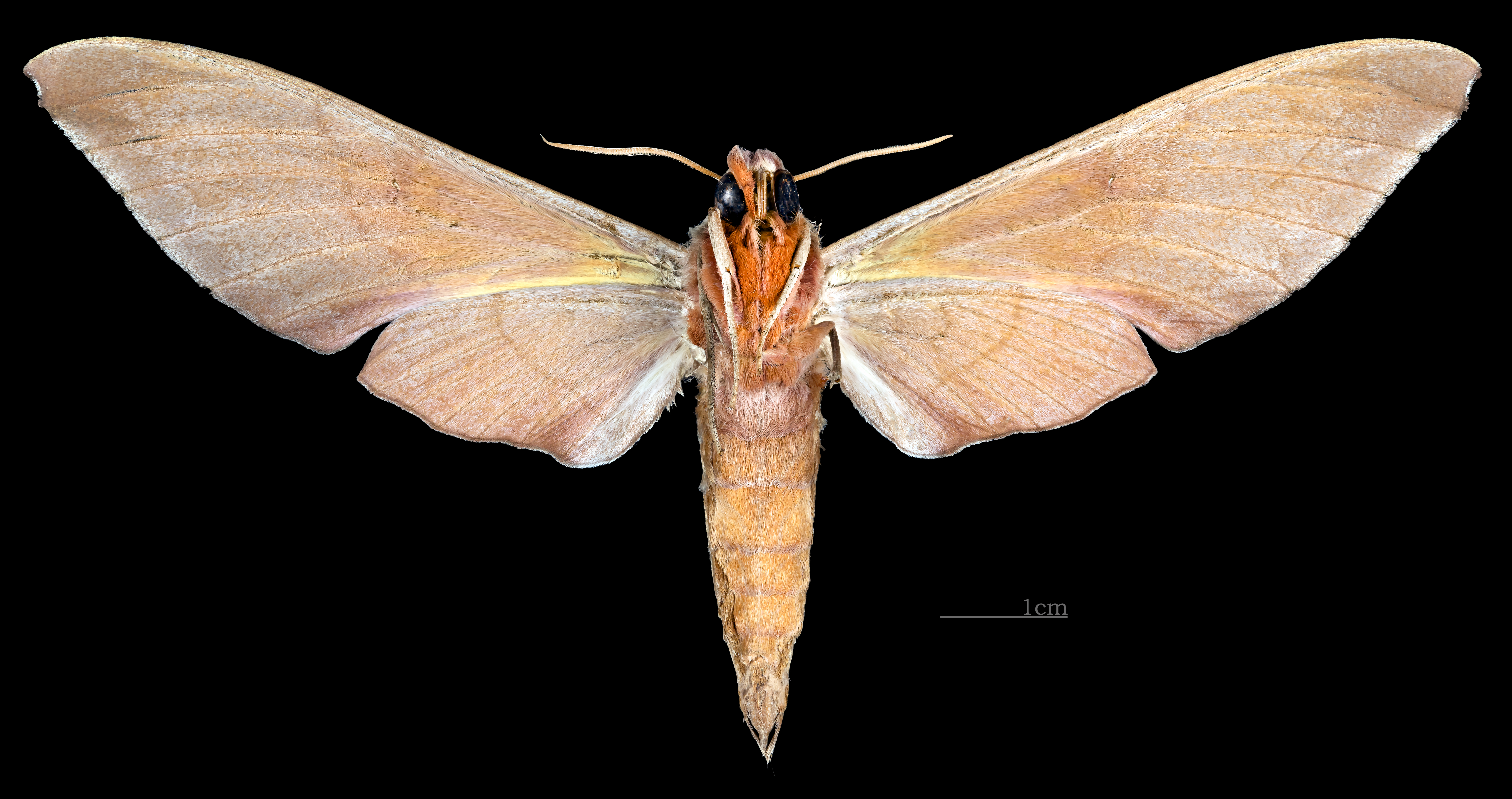 Protambulyx carteri - △ Ventral side Collection of the Mathematician Laurent Schwartz